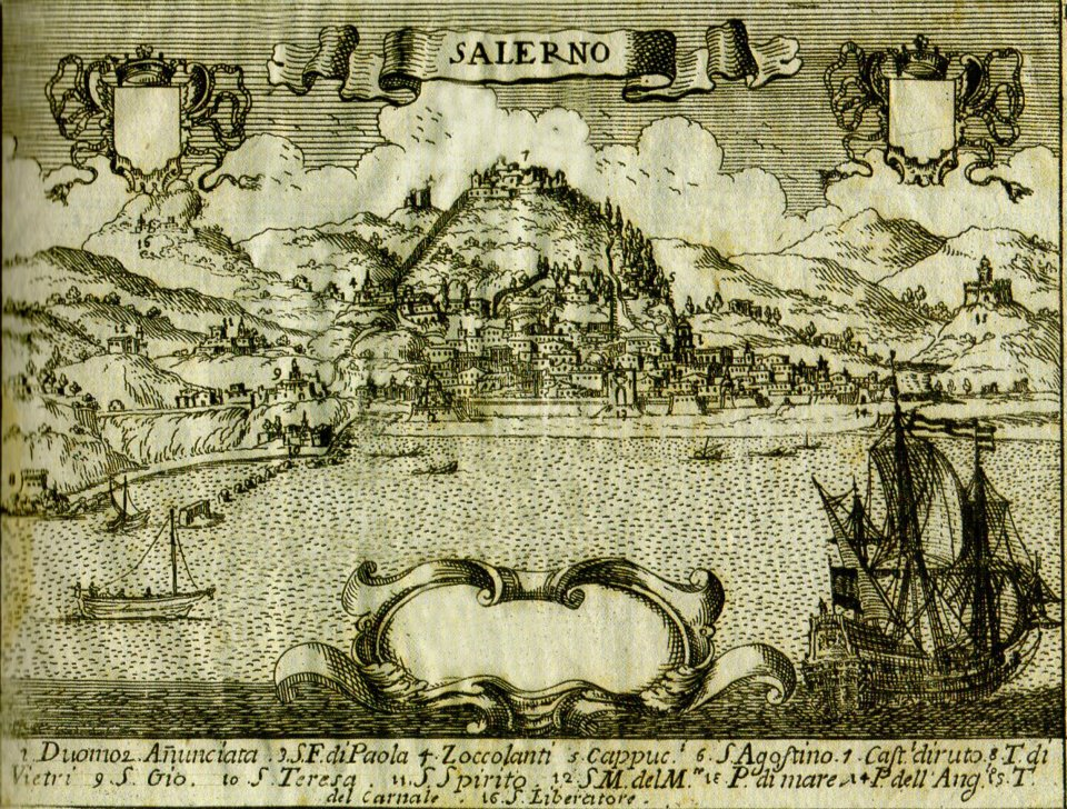 View of Salerno by Giovan Battista Pacichelli from the book "The kingdom of Naples in perspective" Naples, Perrino and Muzio, 1703